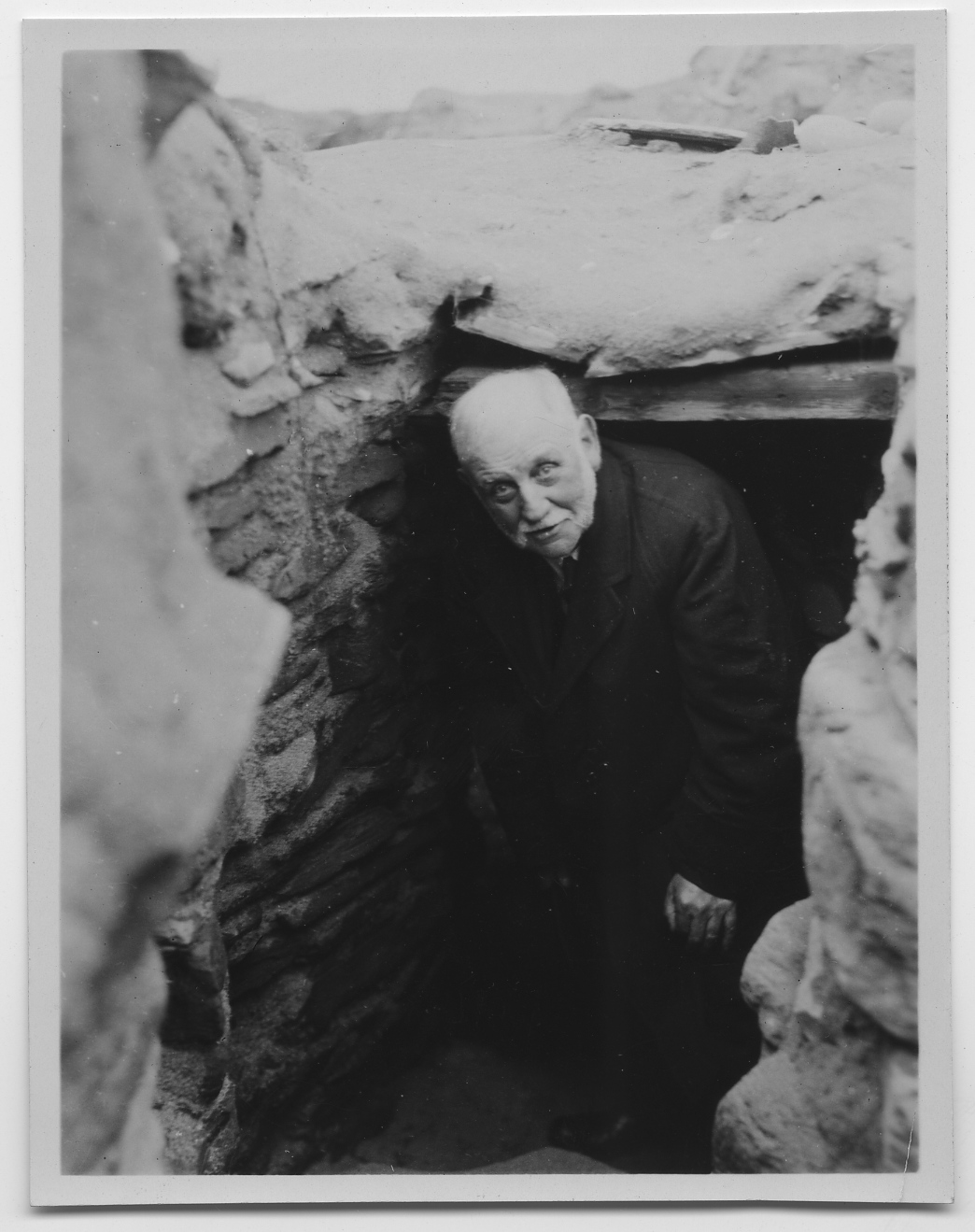 George Lansbury inspecting the excavation of the Neolithic village at the Bay of Skaill, Mainland, Orkneys, in his capacity as First Commissioner at the Office of Works IMAGELIBRARY/1384 Persistent URL